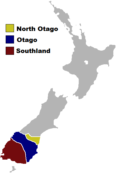 Description of the franchise area for the Highlanders rugby union team.